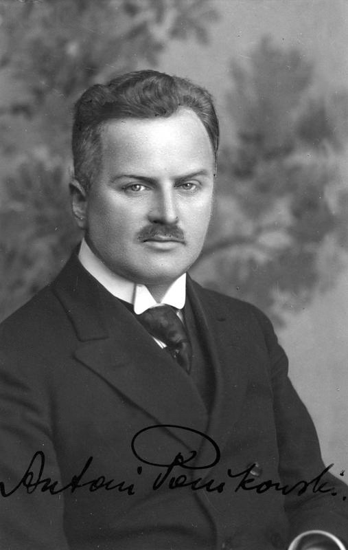 Antoni Ponikowski, Prime Minister of Second Polish Republic